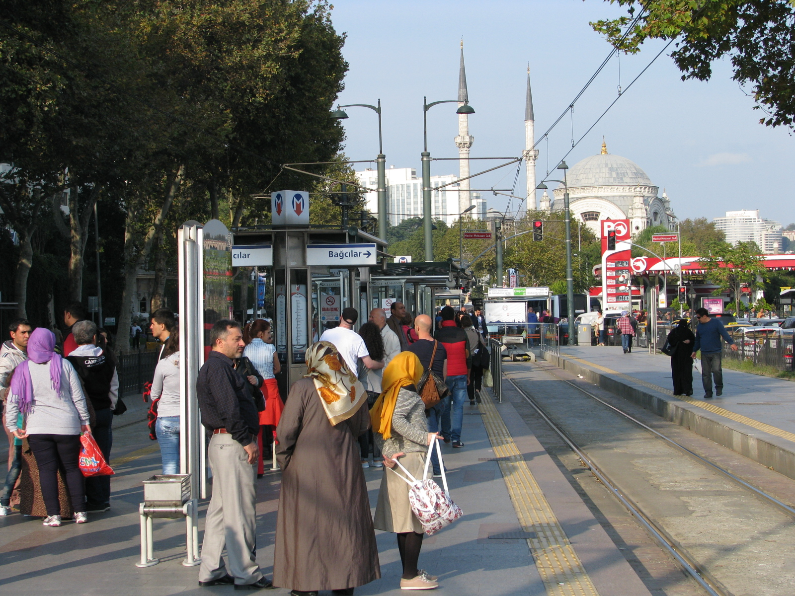 Kabataş tram stop on Istanbul tram line 1